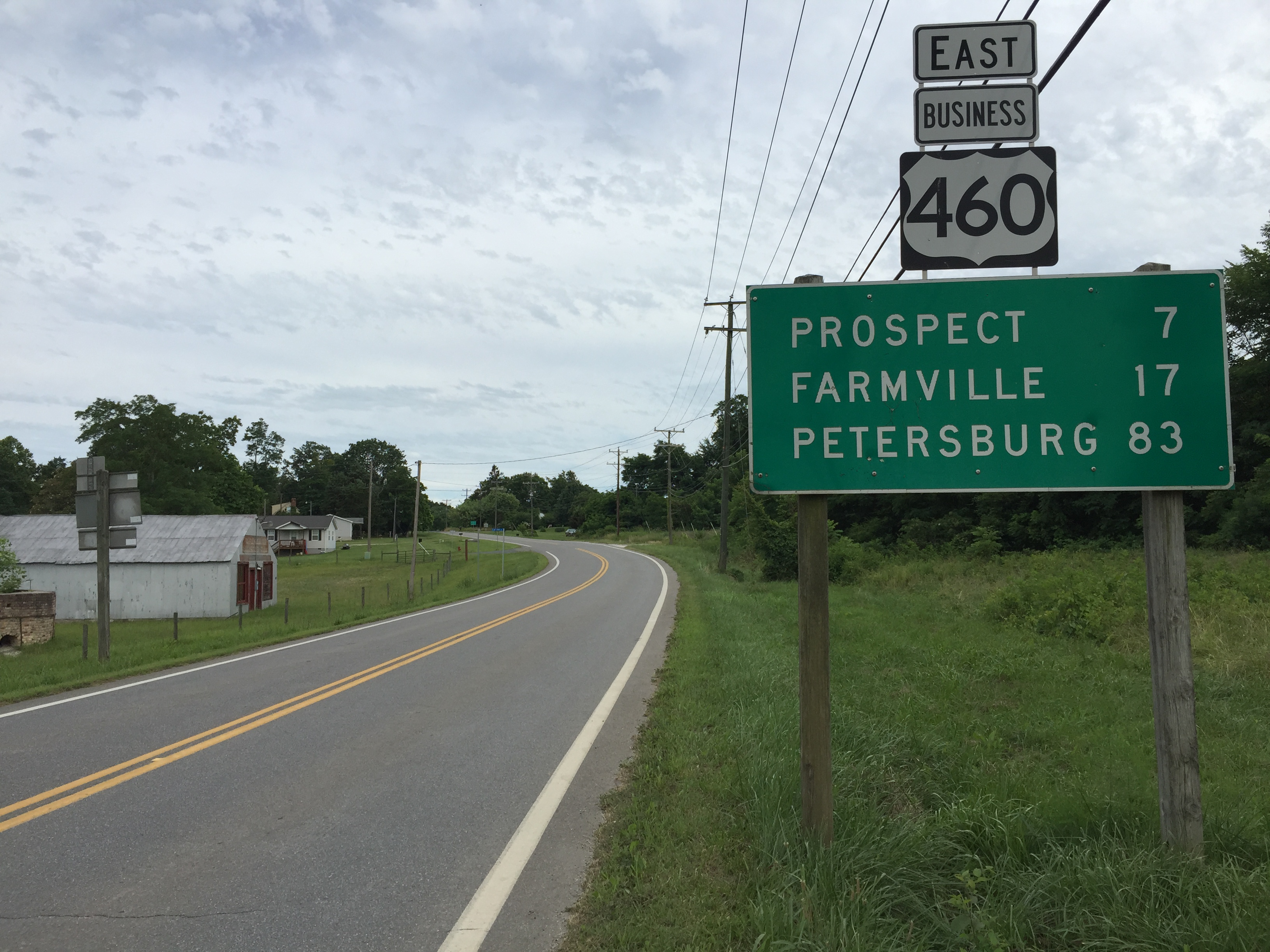 View east along U.S. Route 460 Business (Pamplin Road) between Virginia State Route 47 (Thomas Jefferson Highway) and Claypipe Lane (Virginia State Secondary Route T-1111) in Pamplin City, Appomattox County, Virginia